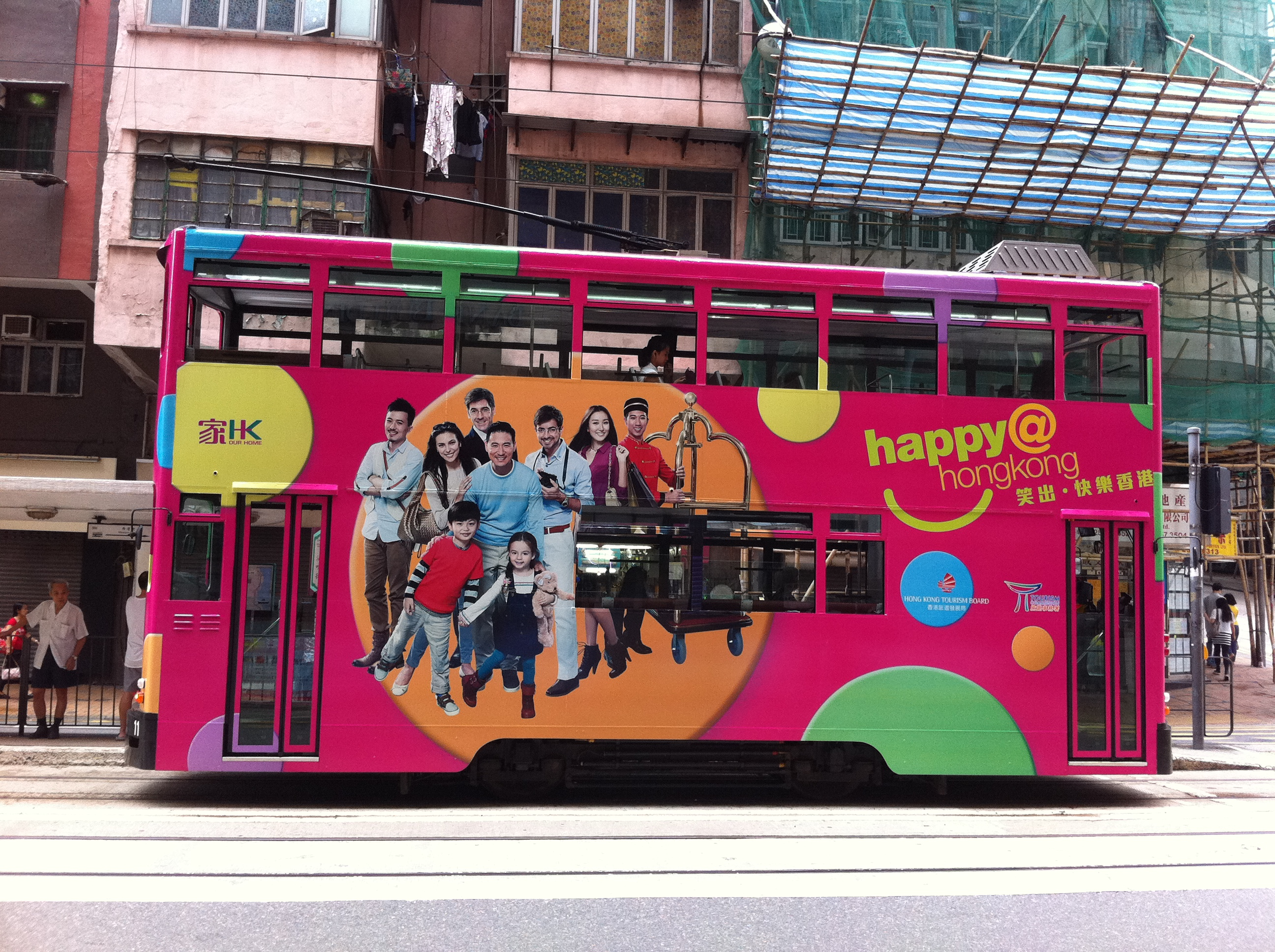 家是香港, Home+Hong Kong, tram body ads in Des Voeux Road West, Sai Ying Pun, Hong Kong